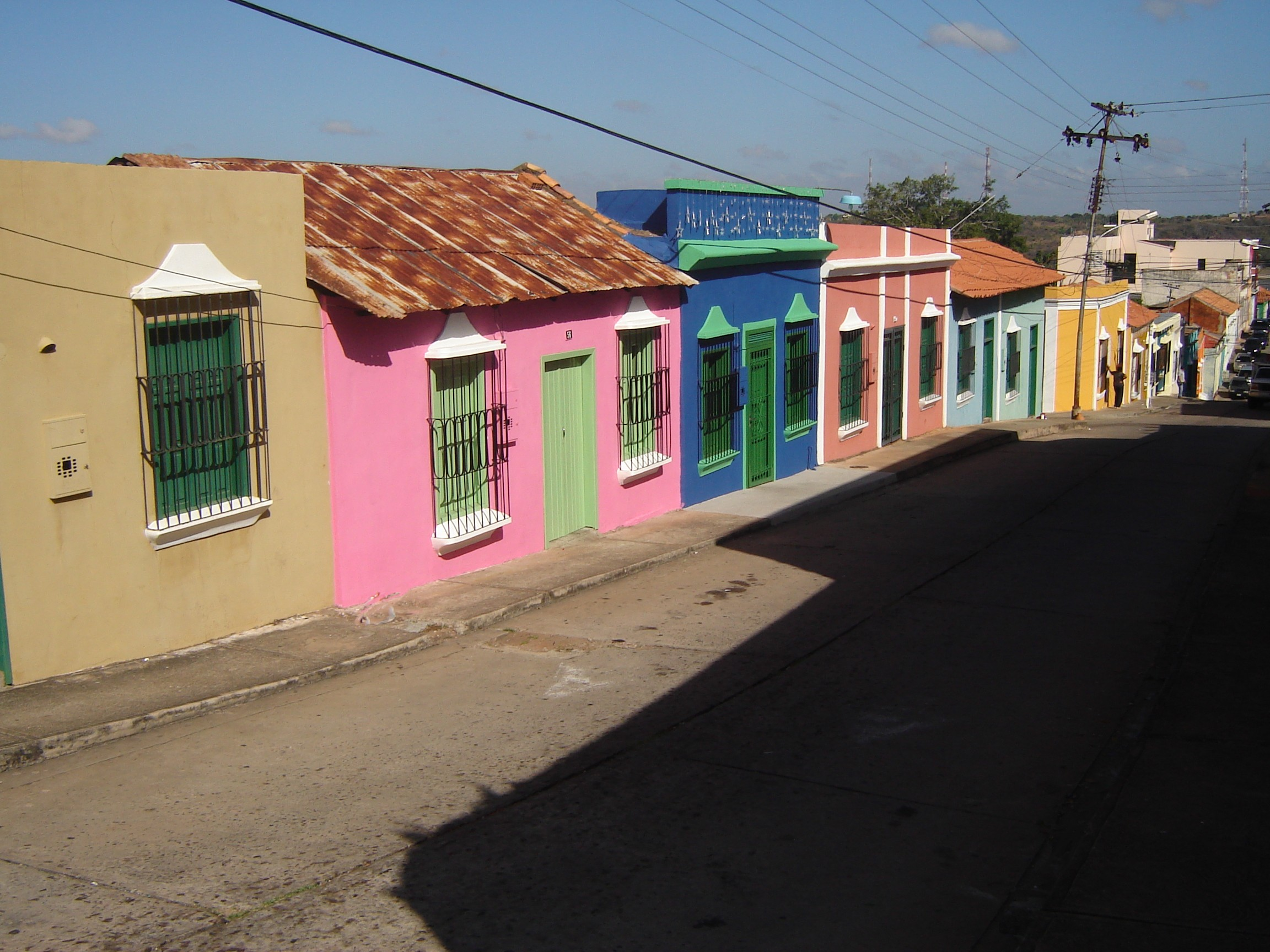 A street in the historical zone of Ciudad Bolívar, i take it in December, 2006